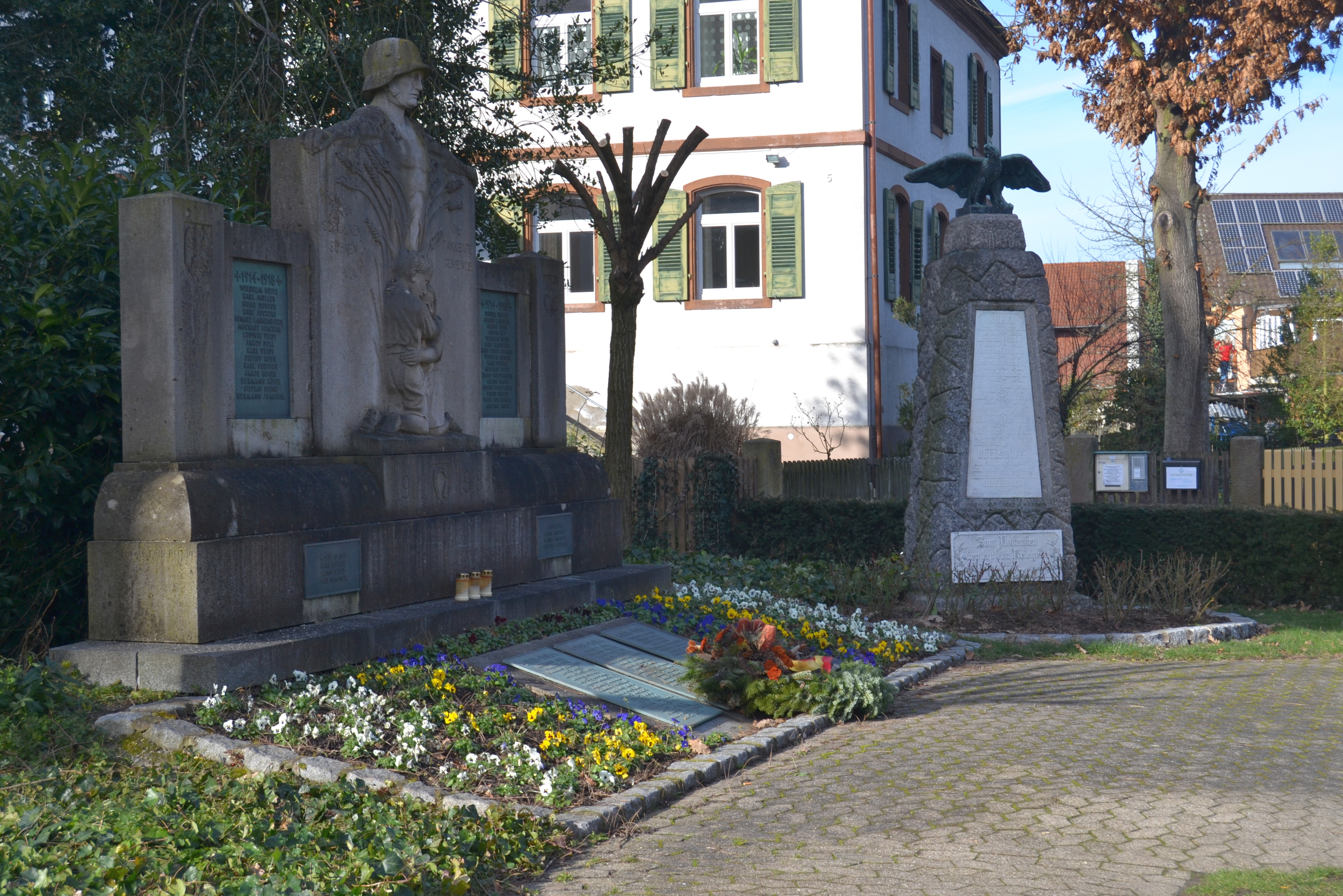 European Parliament 2014 3.–7. February 2014, StrasbourgThis photo has been created within the project "WIKI loves parliaments / European Parliament". Usage and Help If you have any questions concerning this picture or how to use it, feel free to Personality rights warningAlthough this work is freely licensed or in the public domain, the person(s) shown may have rights that legally restrict certain re-uses unless those depicted consent to such uses. In these cases, a model release or other evidence of consent could protect you from infringement claims.